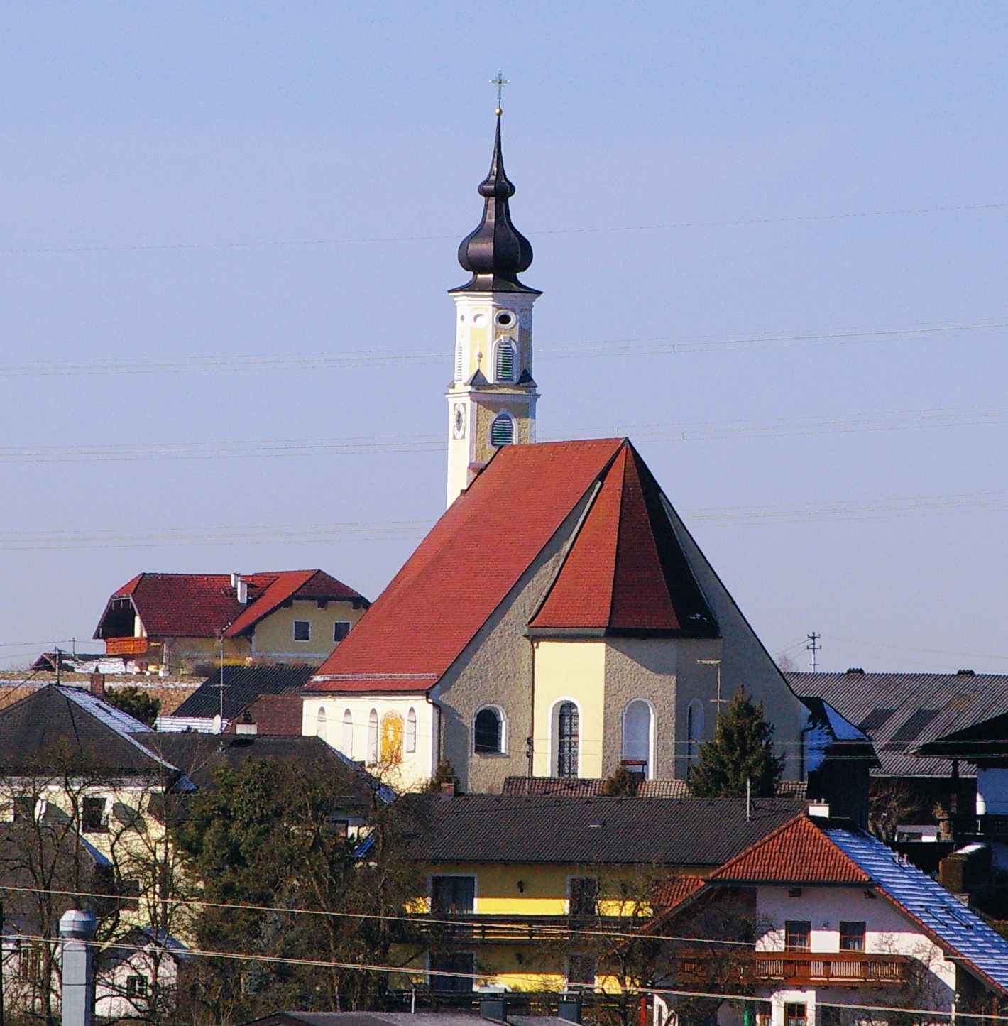 parish church Franking